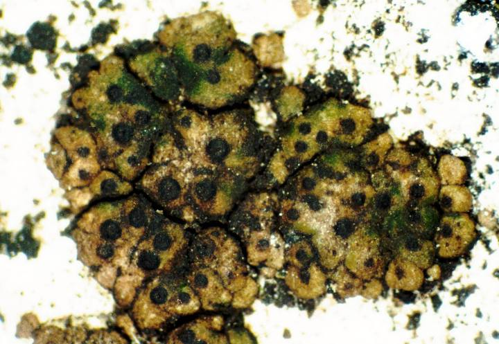 Endocarpon petrolepideum (Nyl.) Nyl., 1892 (photograph of a herbarium specimen taken through a dissecting microscope (x32) showing the brown squamulose thallus of E. petrolepideum) Growing at the base of a hill of concrete created by dumping waste cement over the years in an area adjacent to Indian Creek S of the Greenbelt Metro station, Greenbelt, Prince George's County, Maryland, USA; collected by E.C. Uebel (No. U-480, 11 Mar 2004). Identified by Dr. Othmar Breuss, Natural History Museum, Vienna, Austria (Mar 2005).